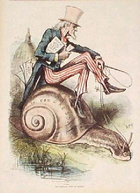 Uncle Sam - personification of USA, riding a snail labled "45th Congress". Title: "The Lightning Speed of Honesty."